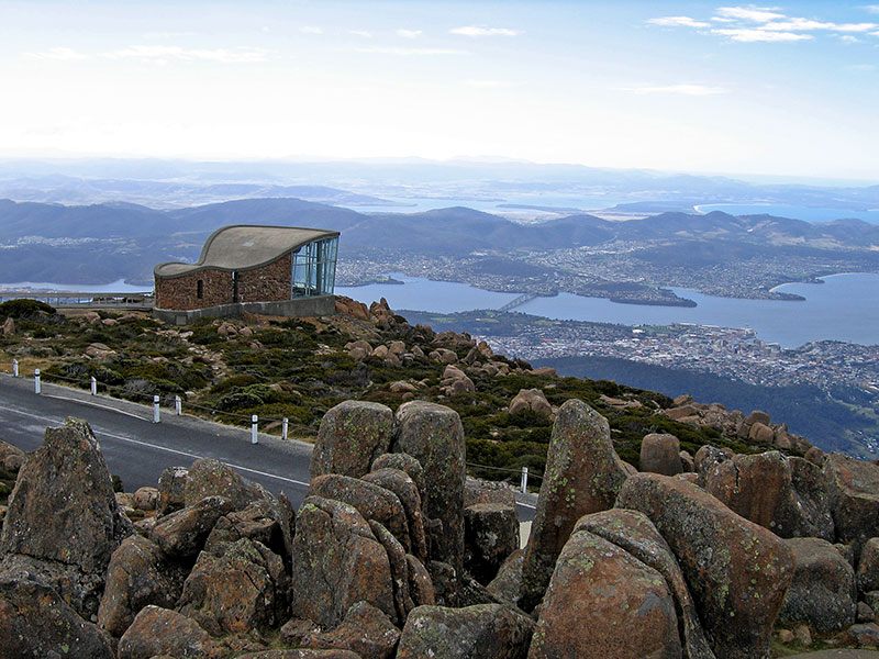 Observation deck on the summit of Mt Wellington, overlooking Hobart, Tasmania.